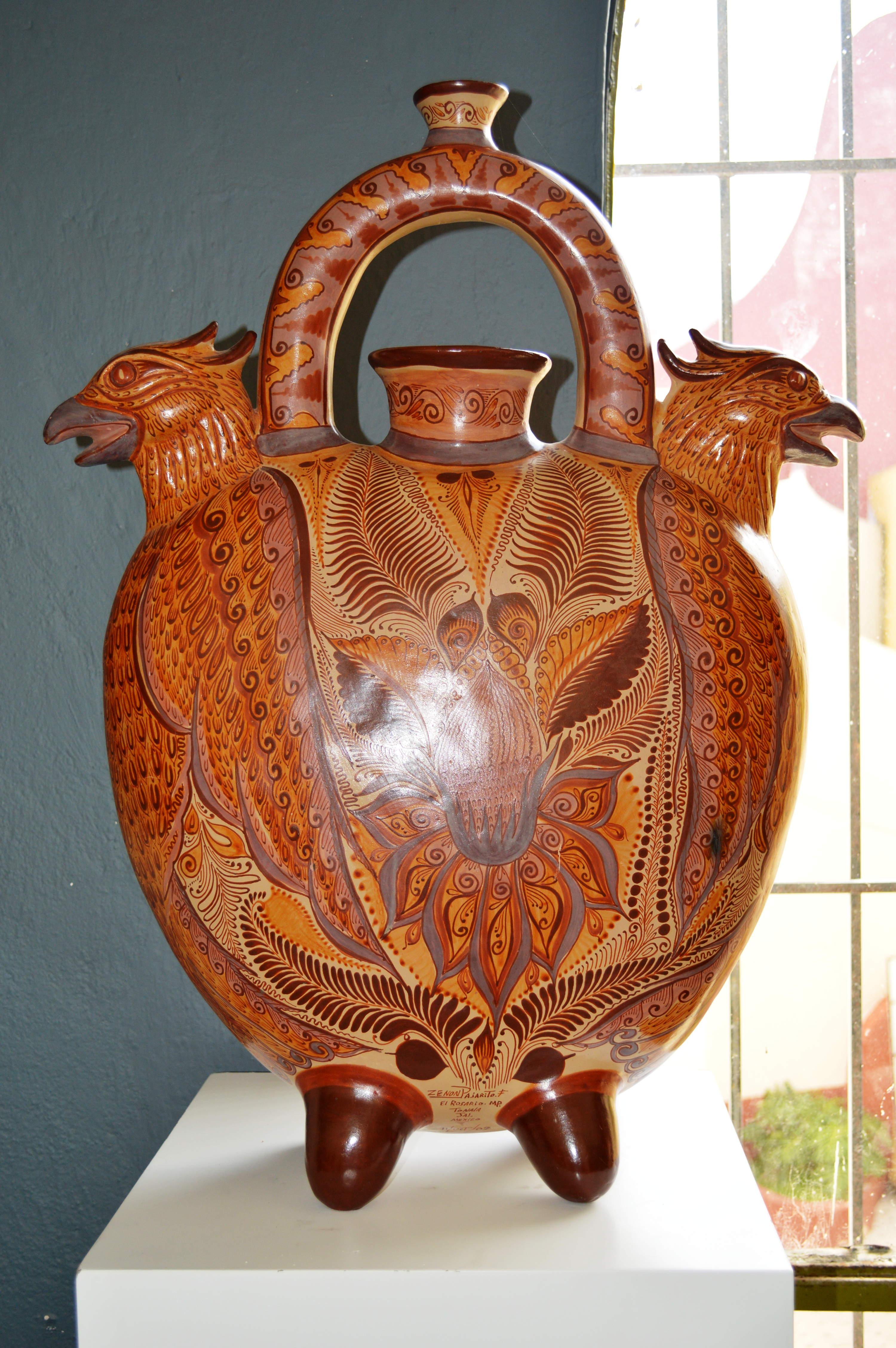 Ceramic piece by Zenon Pajarito at the Museo Nacional de la Ceramica in Tonala, Jalisco, Mexico